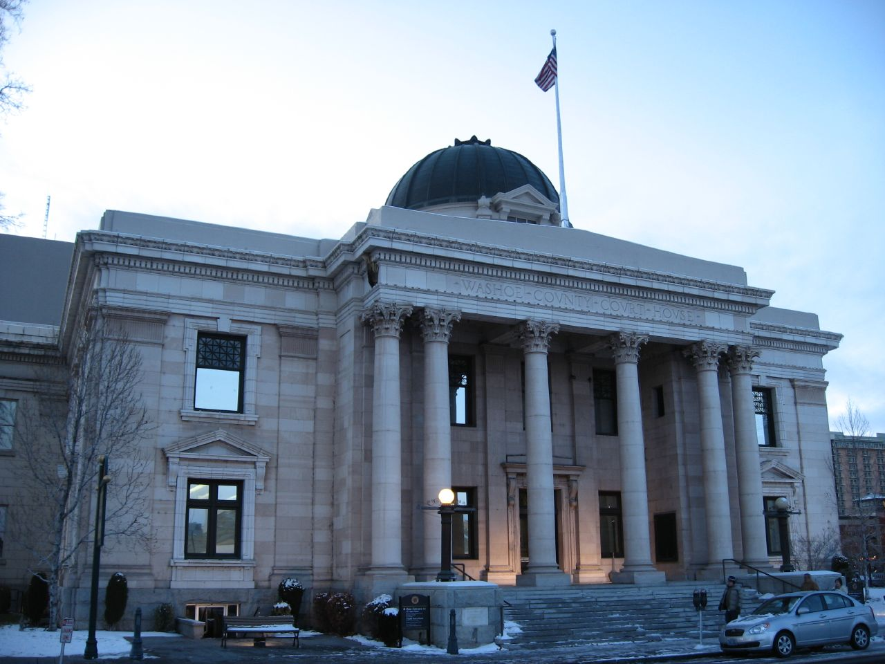 Washoe County Courthouse in Reno, Nevada